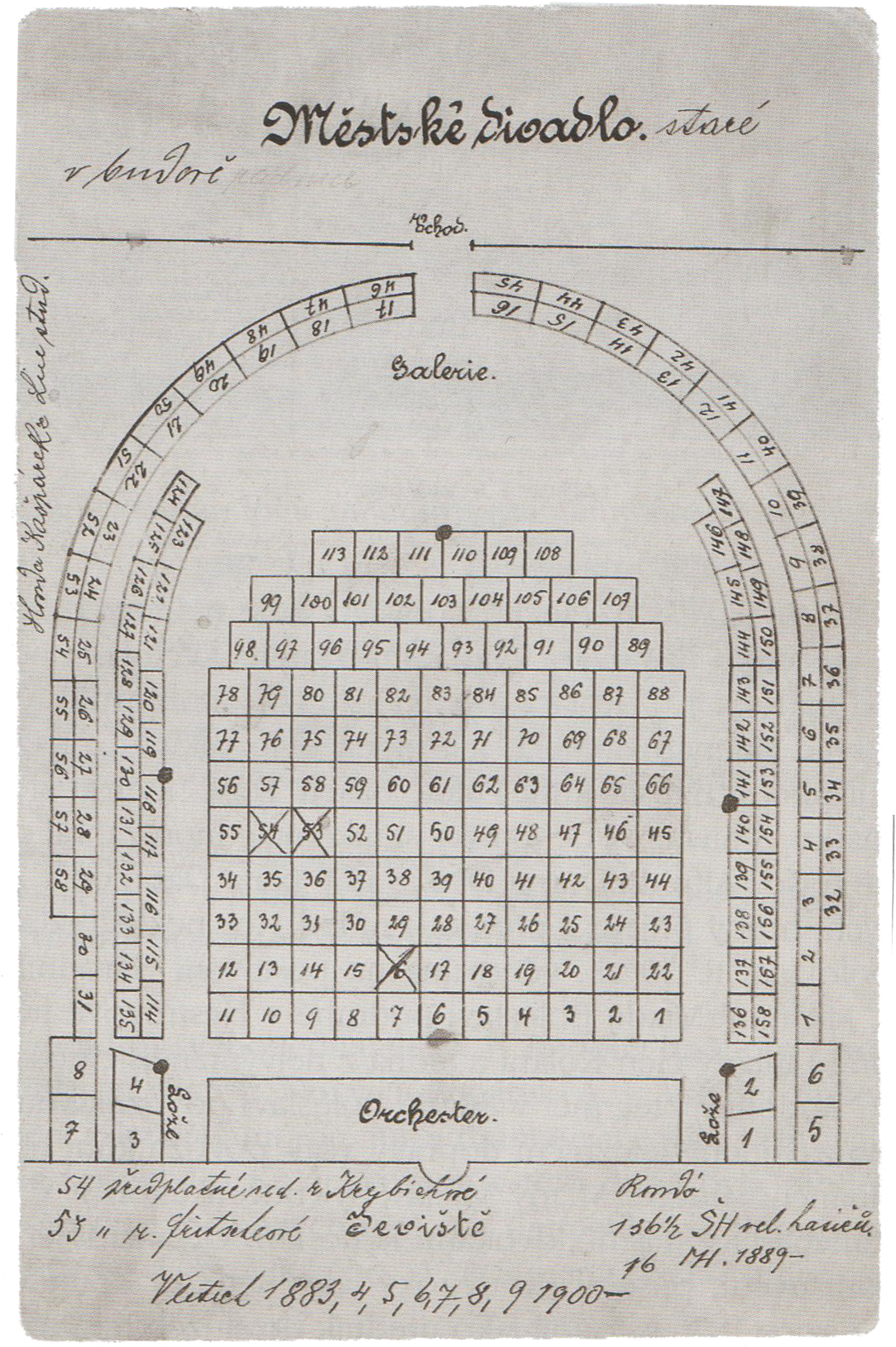 The plan of the theatre of Mladá Boleslav (town hall building), 1870